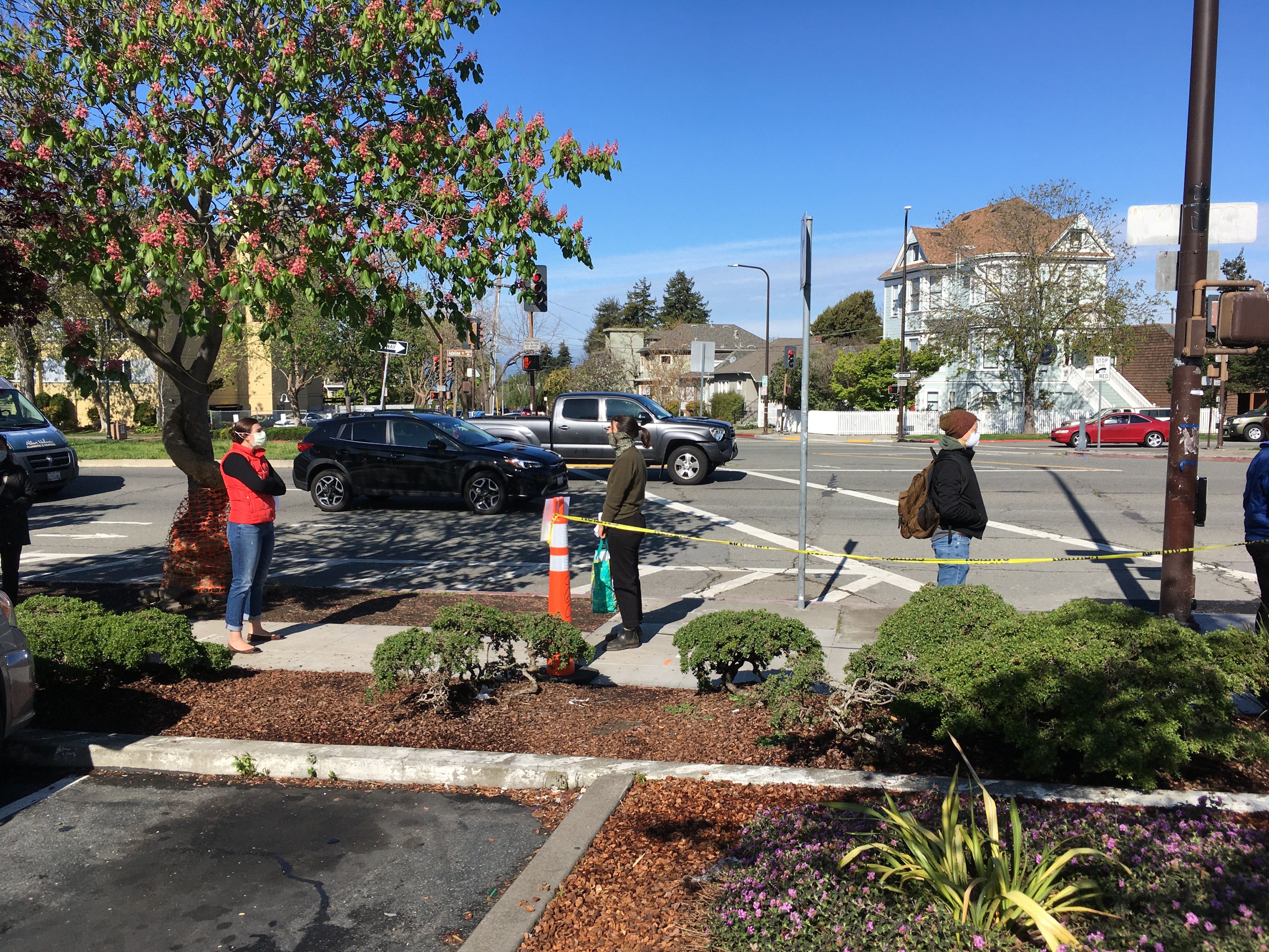 People practicing social distancing by standing 6 feet apart in line for the Berkeley Bowl grocery store in Berkeley, California to prevent the spread of COVID-19